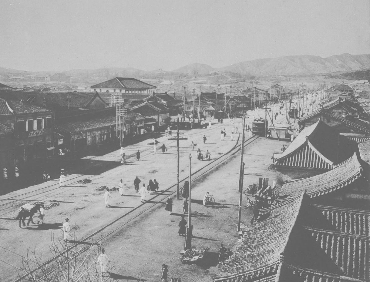 Jongno Street in Seoul during the Korean Empire.